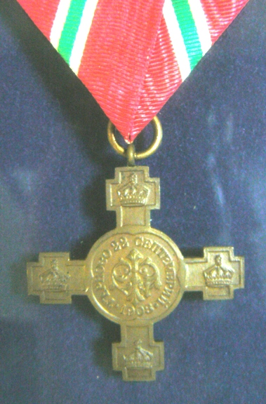 Bulgarian commemorative medal "Bulgarian Independence Cross, 1908", exhibit of the Teteven History museum